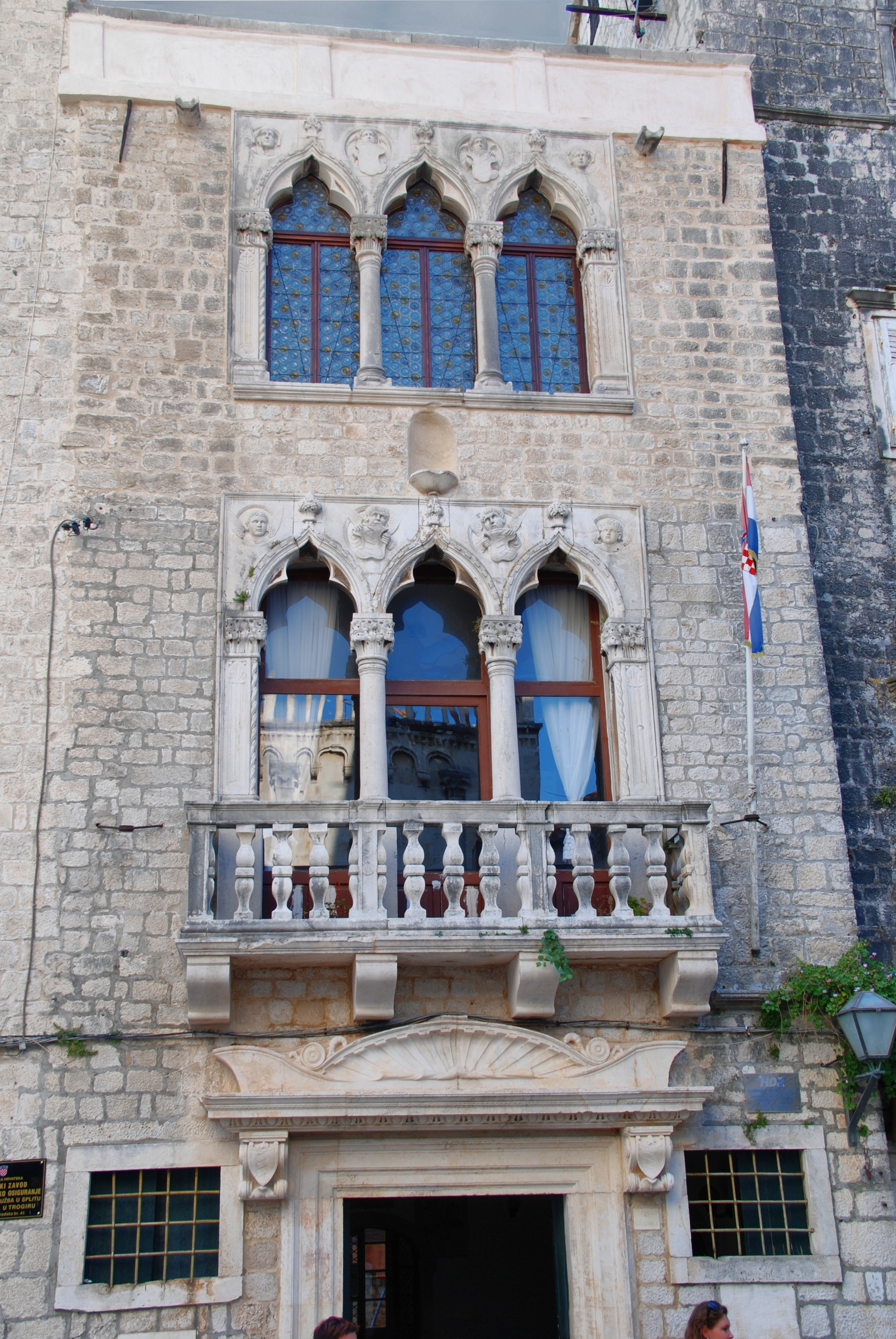 The Cipiko Palace in Trogir Old Town, Croatia; pseudo-HDR